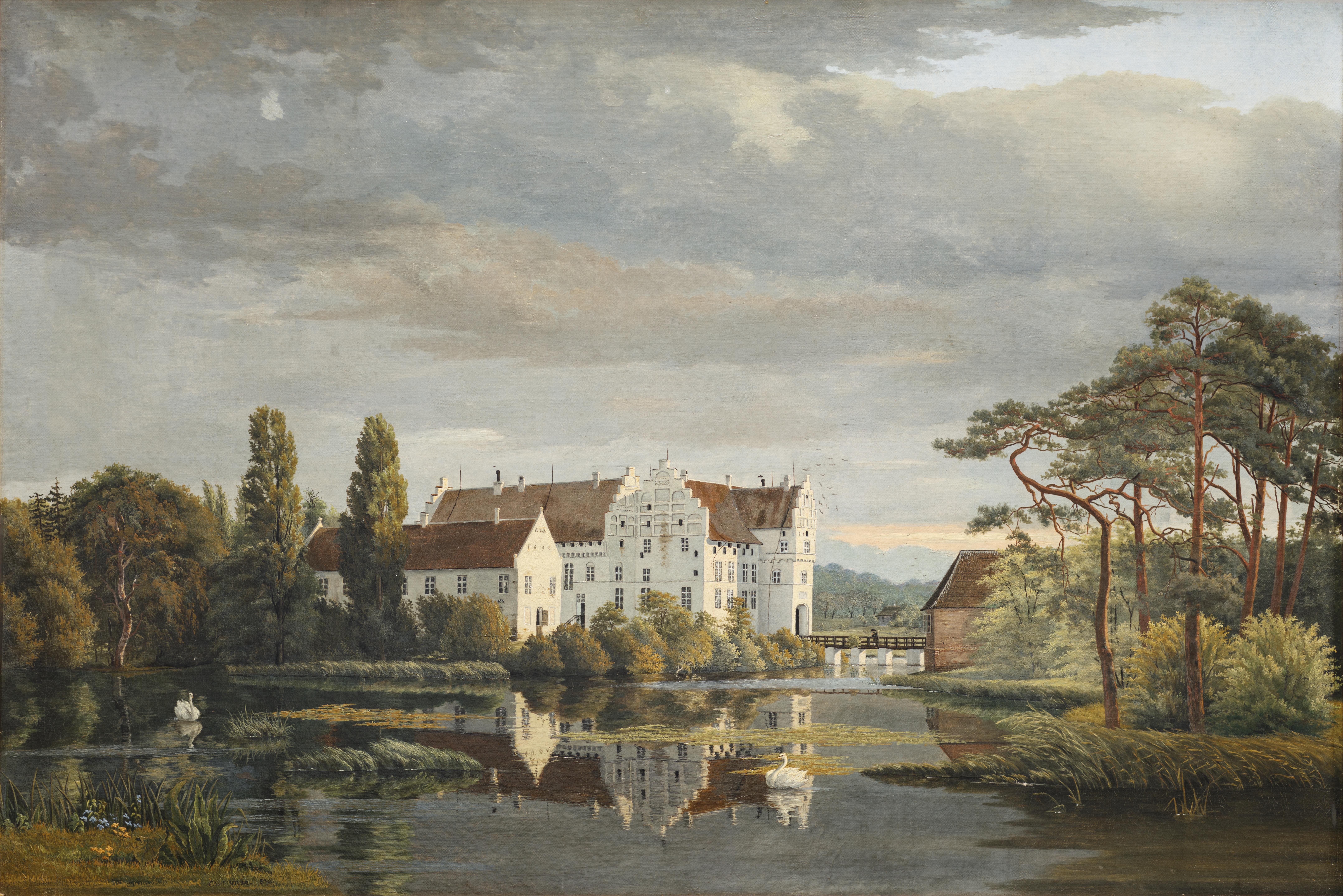 Detail of painting of Gisselfeld , Faxe Municipality, Denmark